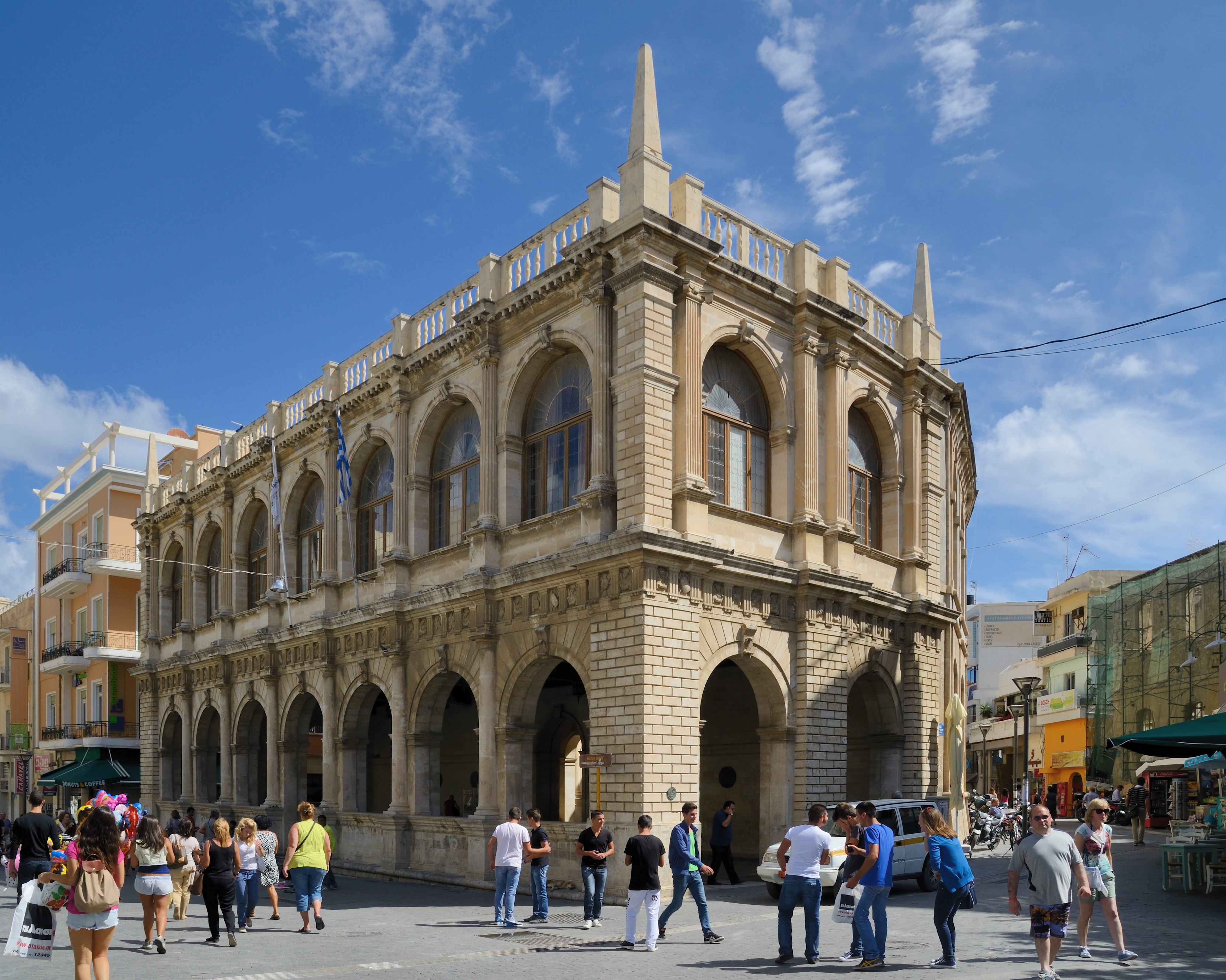 Iraklion: Venetian Loggia